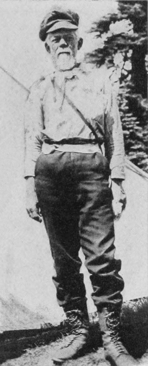 A photo of Civil War General Hazard Stevens, who won the Medal of Honor. Stevens completed the first ascent of Mount Rainier in 1870. This photo was taken by C. E. Cutter in 1905, when Stevens climbed Rainier for a second time.